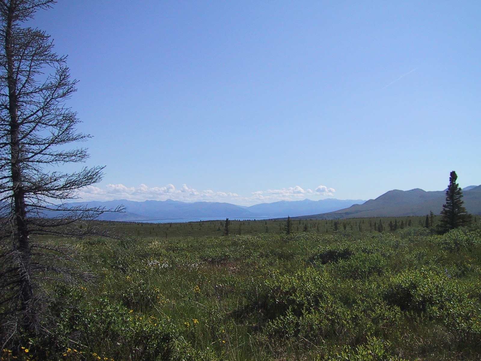 Looking back at Kluane Lake in the Burwash Uplands, Canada. EXIF date is incorrect - taken in July 2002, per photographer's Donjek Trek July 2002 Flickr album.